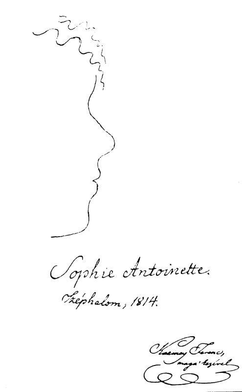 Sophie - the wife of hungarian writer Ferenc Kazinczy